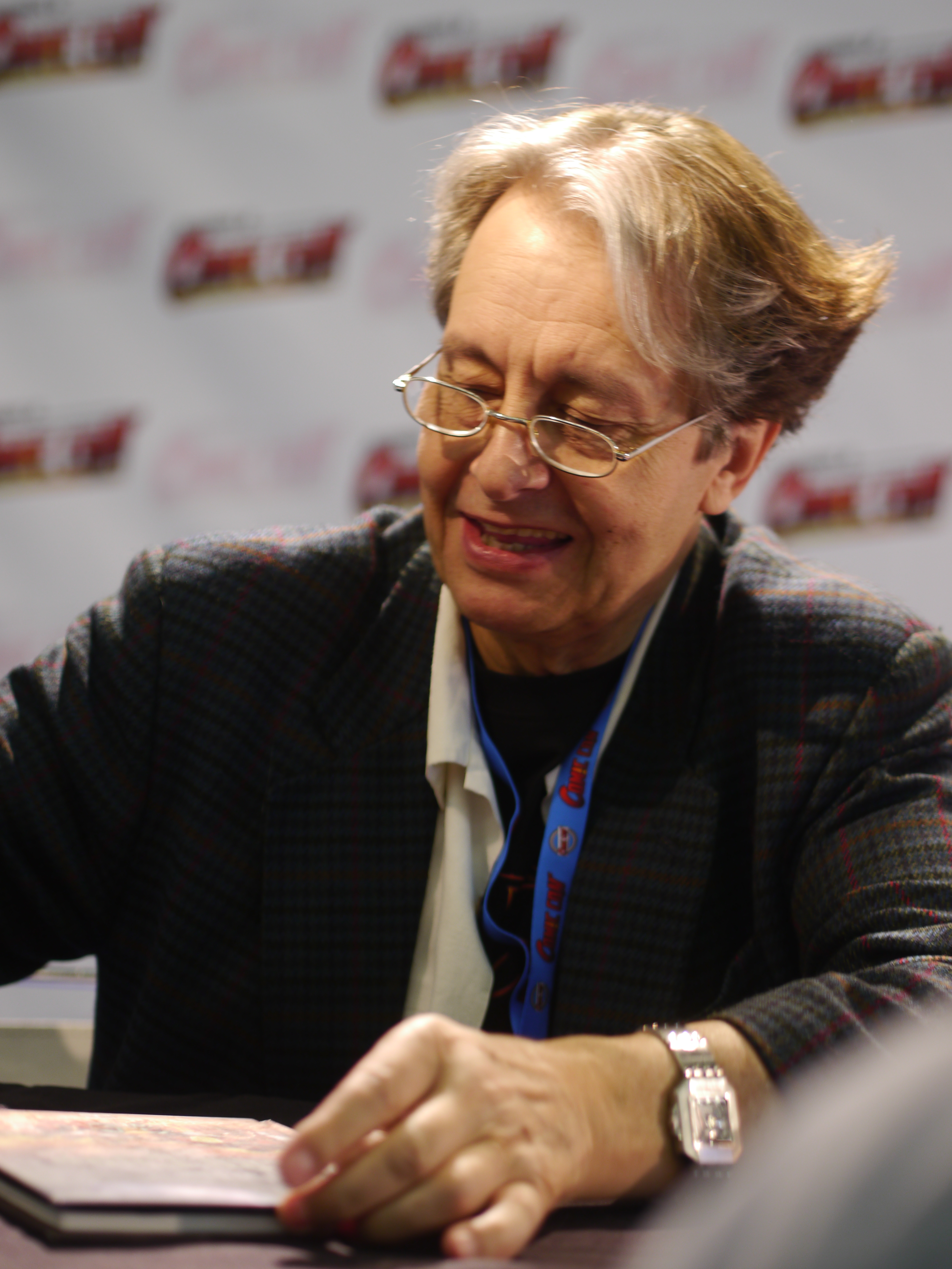 Japan Expo Festival, 14th impact